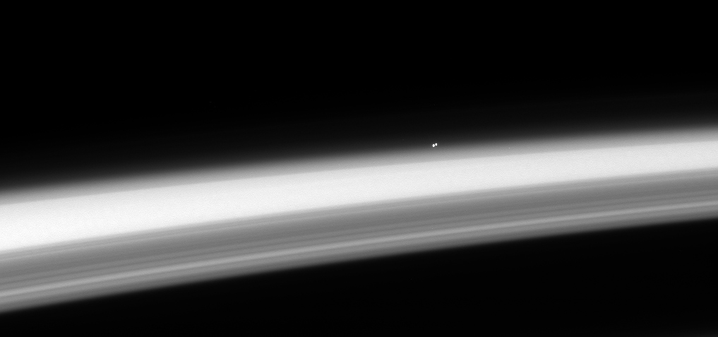 Original Caption Released with Image: The nearest star system, the trinary star Alpha Centauri, hangs above the horizon of Saturn. Both Alpha Centauri A and B—stars very similar to our own—are clearly distinguishable in this image. (The third star in the Alpha Centauri system, the red dwarf Proxima Centauri, is not visible here.) From the orbit of Saturn, light (as well as Cassini's radio signal) takes a little more than an hour travel to Earth. The distance to Alpha Centauri is so great that light from these stars takes more than four years to reach our Solar System. Thus, although Saturn seems a distant frontier, the nearest star is almost 30,000 times farther away. This image is part of a stellar occultation sequence, during which Cassini watches as a star (or stars) as it passes behind Saturn. Light from the stars is attenuated by the uppermost reaches of Saturn's gaseous envelope, revealing information about the structure and composition of the planet's atmosphere. The view was captured from about 66 degrees above the ringplane and faces southward on Saturn. Ring shadows mask the planet's northern latitudes at bottom. The image was taken in visible red light with the Cassini spacecraft narrow-angle camera on May 17, 2008. The view was obtained at a distance of approximately 534,000 kilometers (332,000 miles) from Saturn. Image scale on Saturn is about 3 kilometers (2 miles) per pixel.